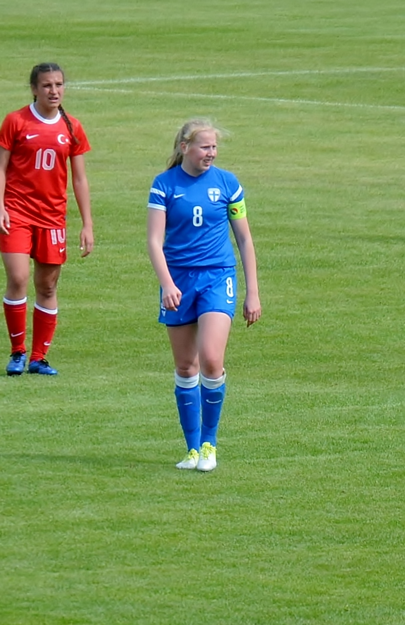 Eveliina Summanen (Finland Women's U-17)